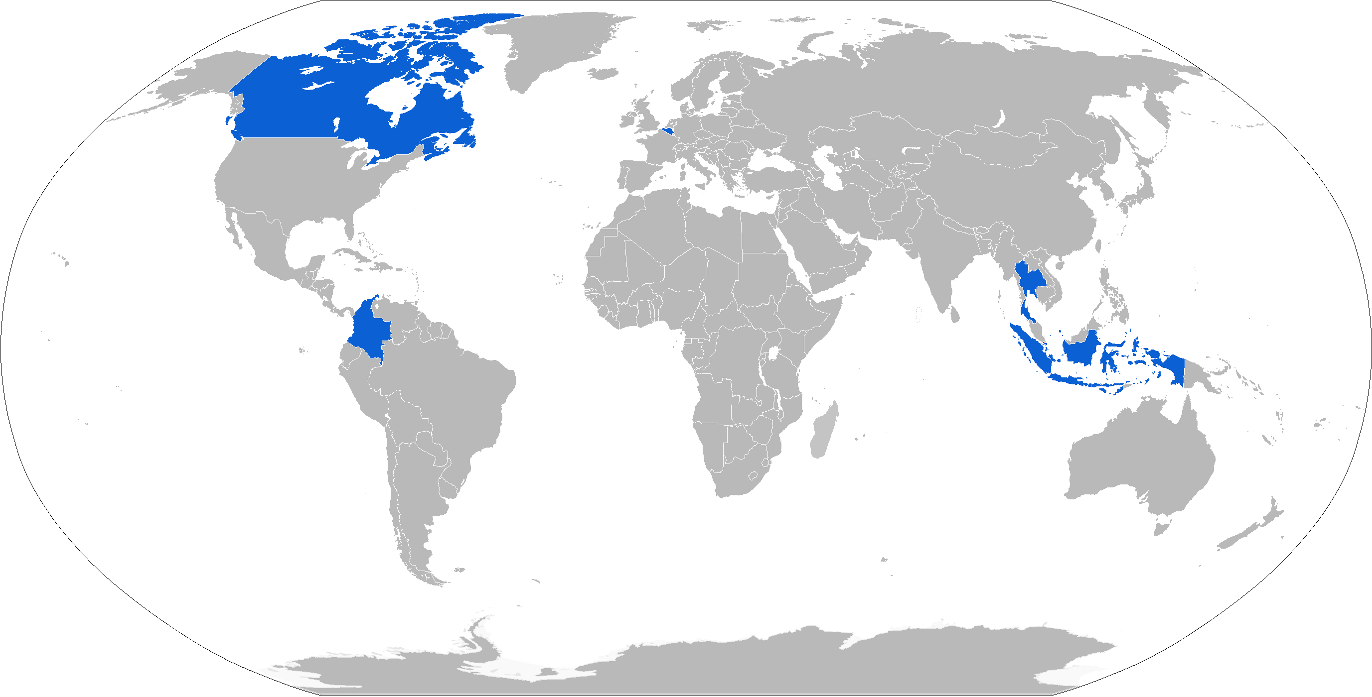 Map with LG1 operators in blue and former operators in red